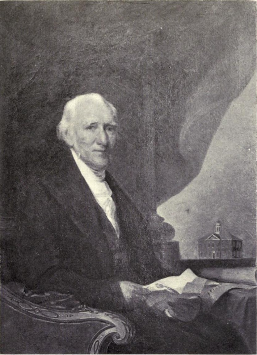 Portrait of William Phillips (1722-1804), Boston merchant.